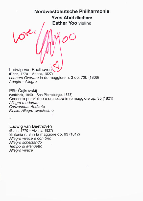 Genoese concert programme autographed by Esther Yoo, January 2019